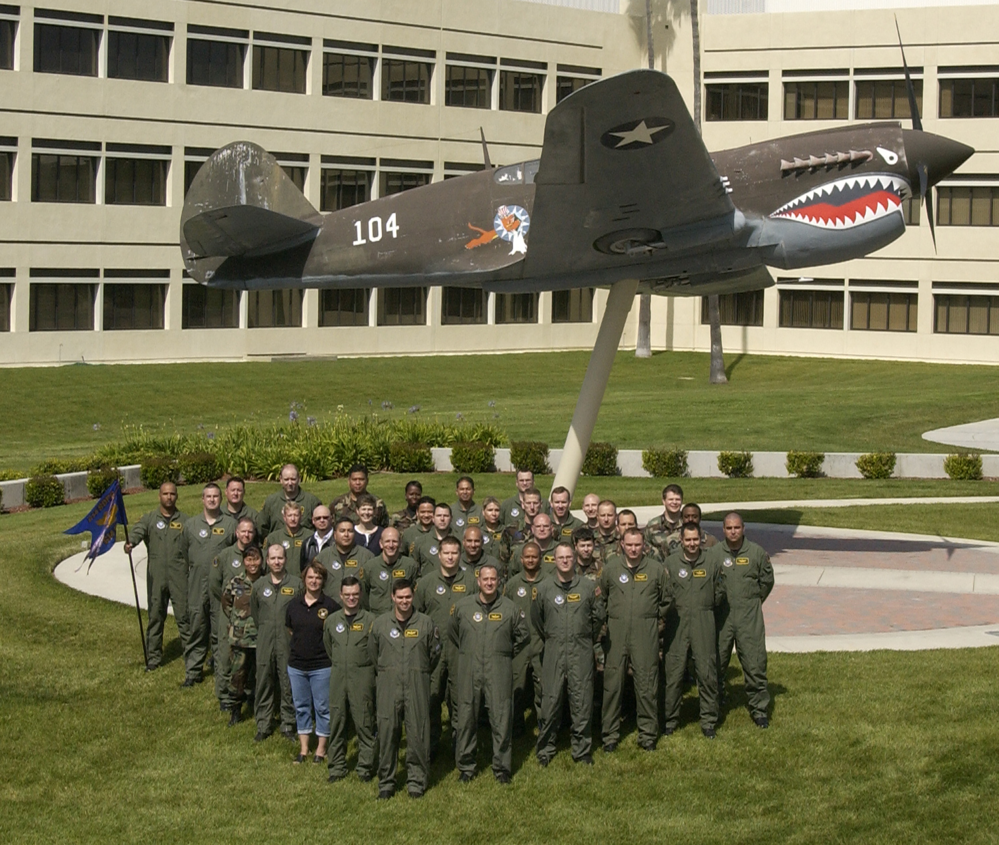 This is the last official photo of the 614 SOPS.